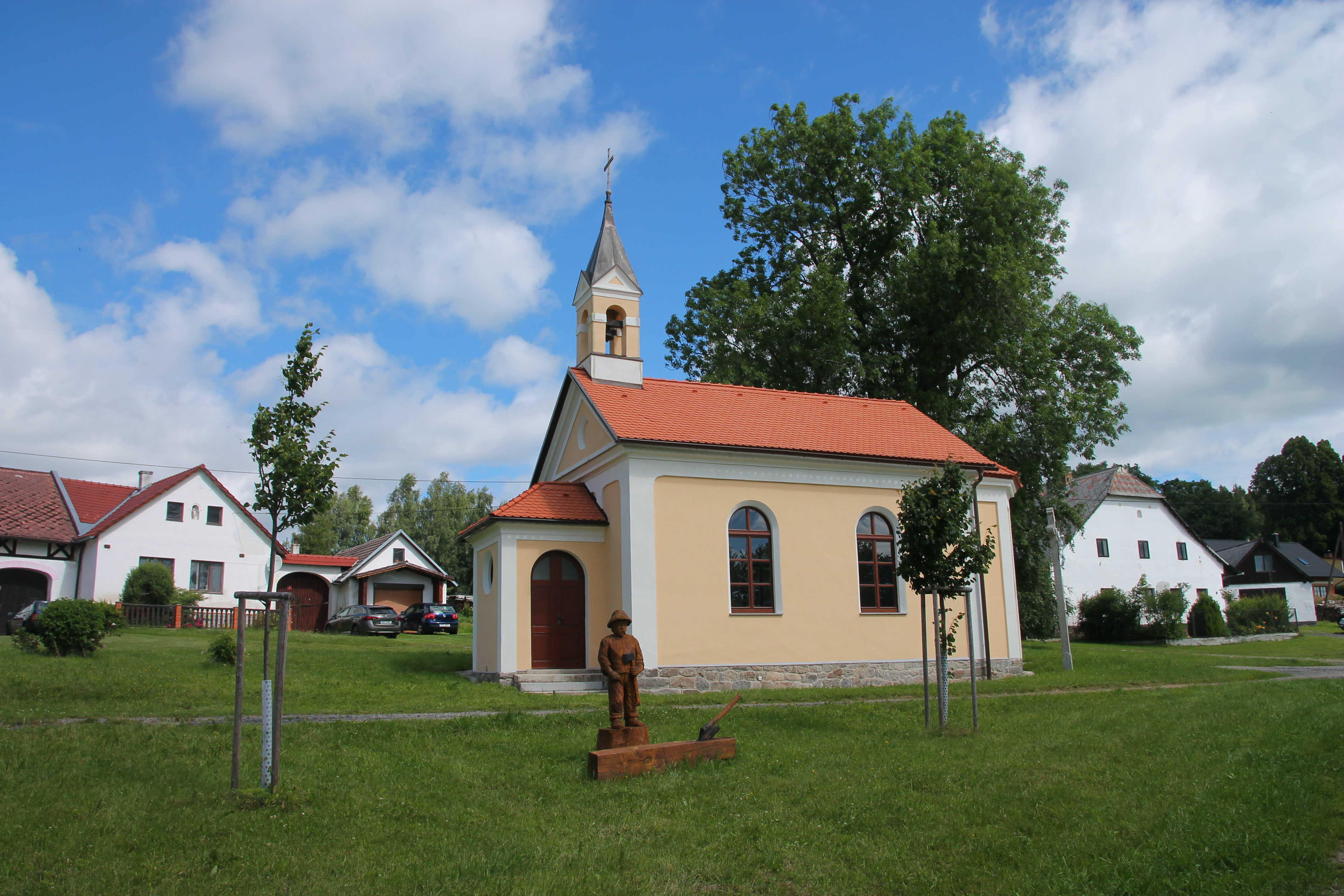 Křesanov, Vimperk